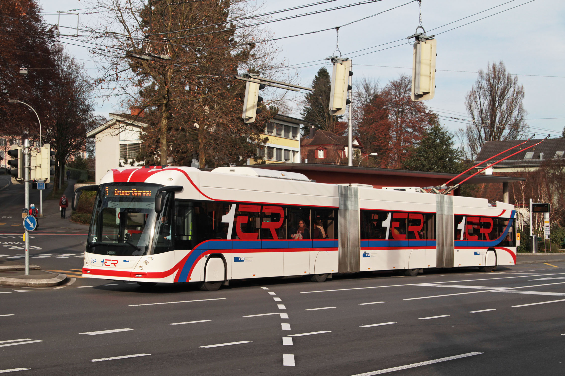 Verkehrsbetriebe Luzern's Hess/Vossloh-Kiepe lighTram 4 No 234 on line 1 at the busstop Eichhof heading to Kriens-Obernau